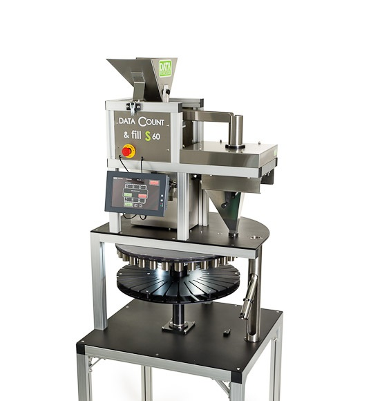 Data Count&Fill S60,An automatic seed counter and filling machine that quickly and accurately counts large quantities of seeds, filling them directly into bags. This machine is ideal for manufacturers that count seeds in varied sizes and quantities. this product was developed by Data Detection Technologies ltd.